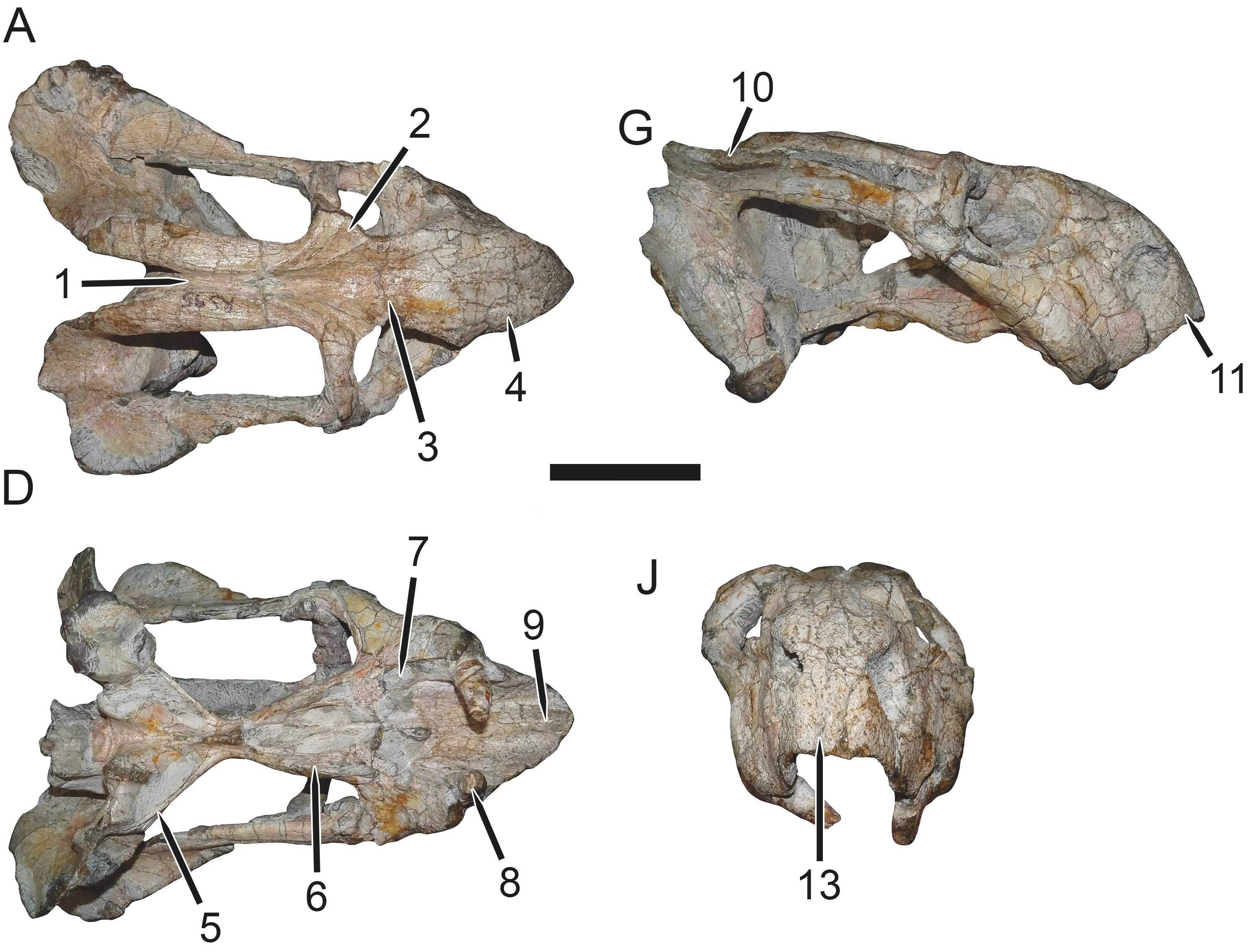 Tropidostoma dubium (SAM-PK-K11238) in (A) dorsal, (D) ventral, (G) right lateral, and (J) anterior views. Bulbasaurus phylloxyron (CGP/1/938) in (B) dorsal, (E) ventral, (H) right lateral, and (K) anterior views. specimen has suffered some lateral compression. Scale bars equal 5 cm.